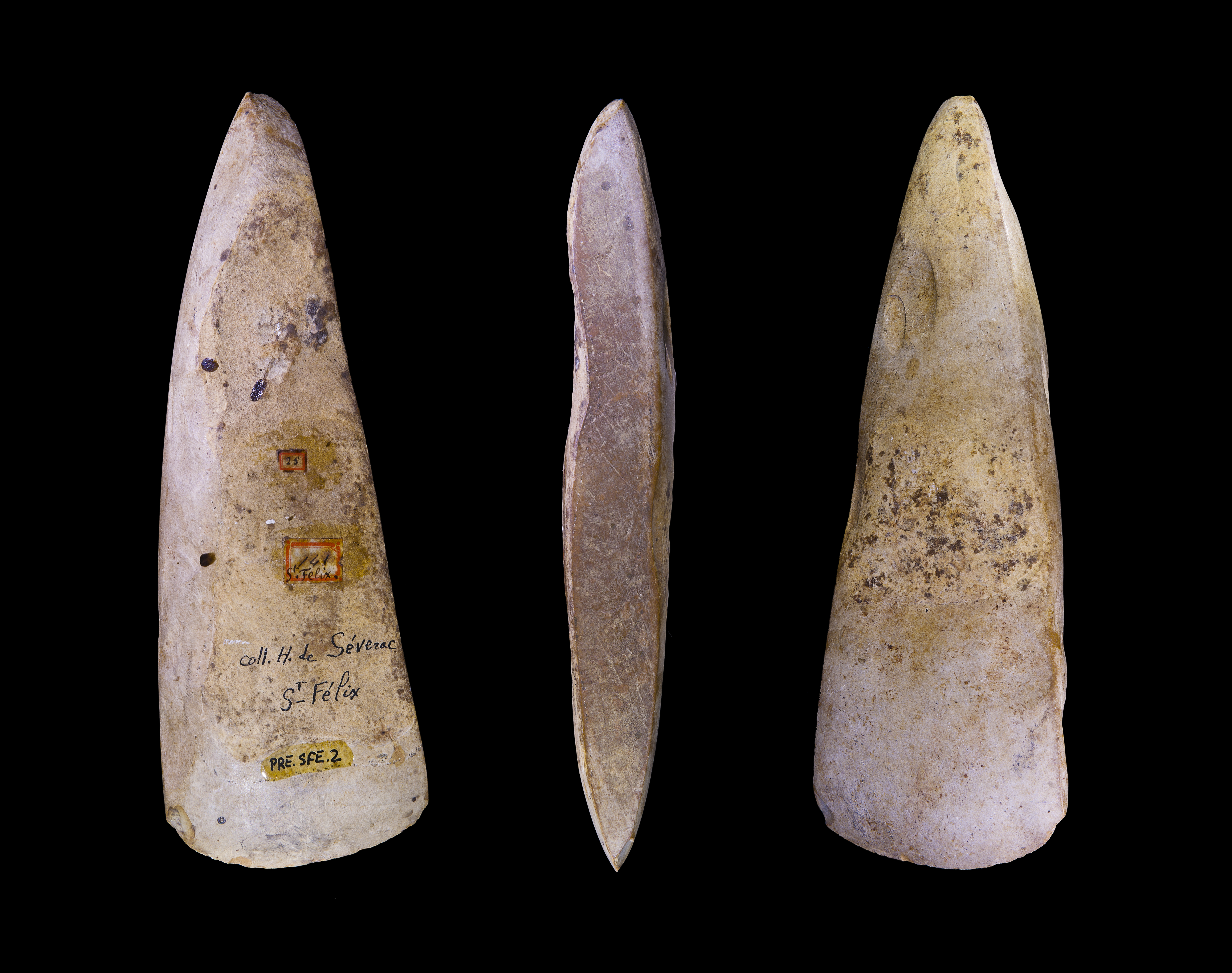 Polished ax - Different views of the same specimen.